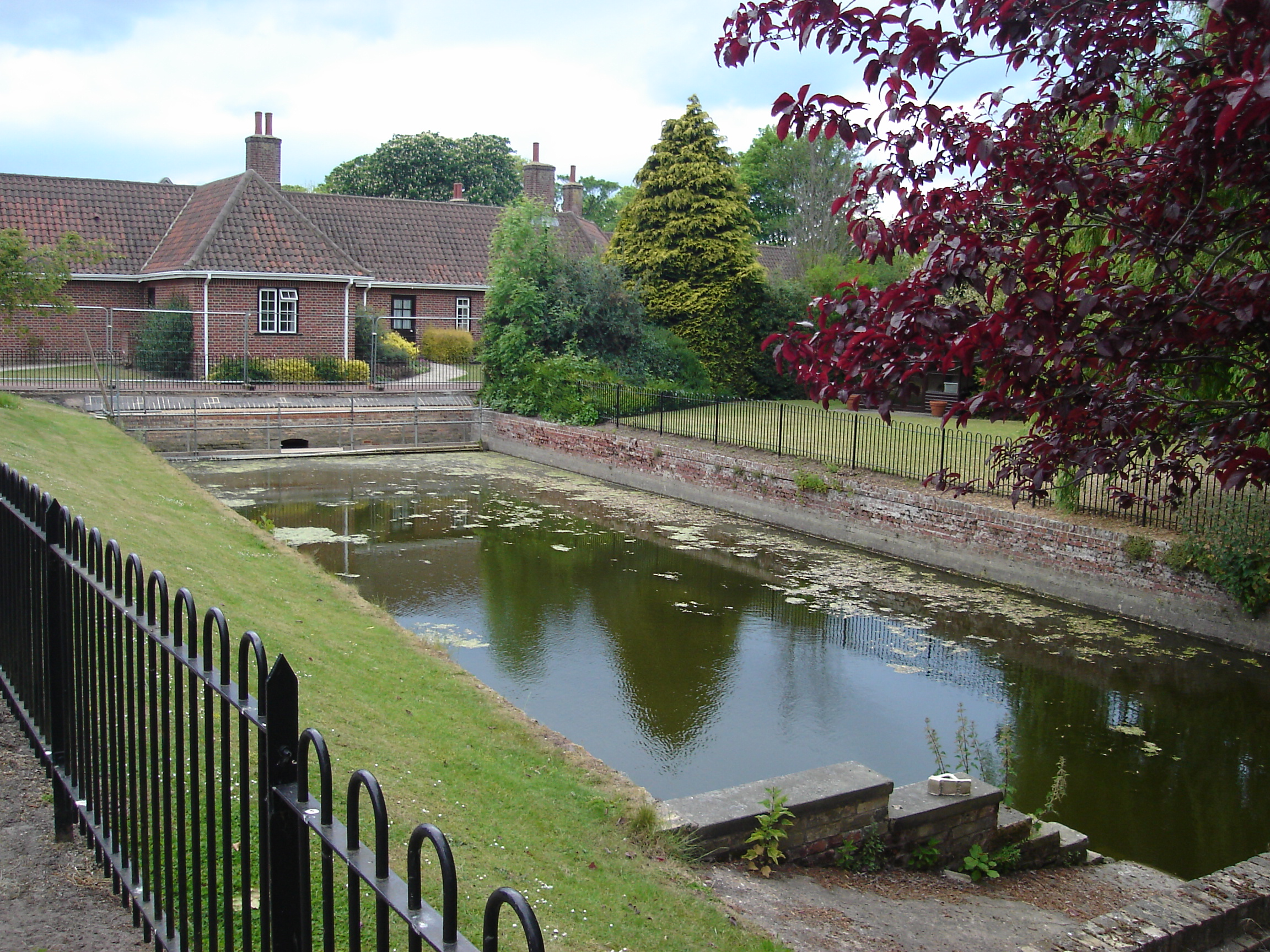 The swan pit at the Great Hospital, Norwich. The tidal pool is connected to the River Wensum via a sluice